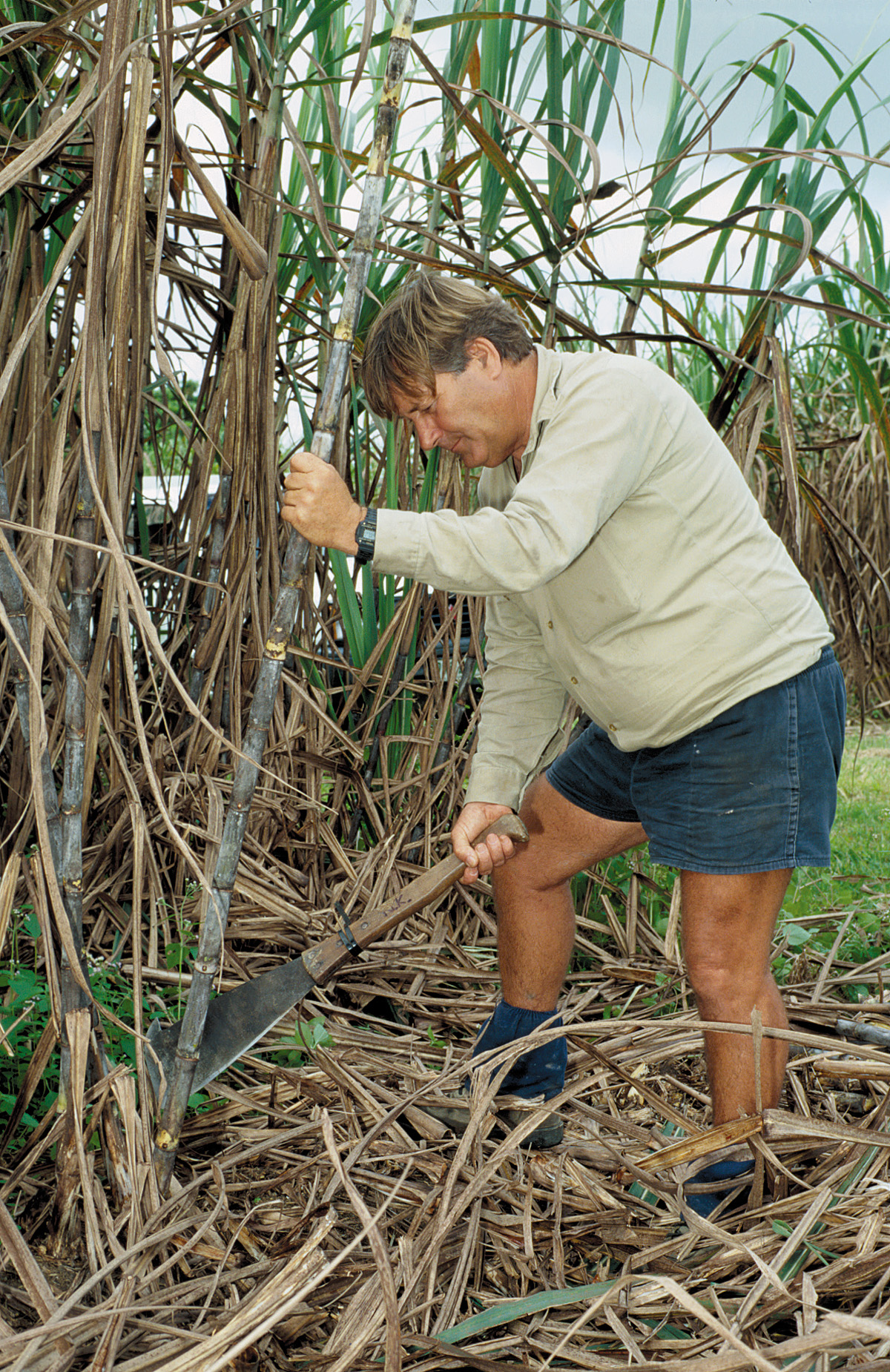 Norm King cutting cane variety Q117, for replanting at Sugar Yield Decline Joint Venture, crop rotation site, Feluga (near Tully). QLD.